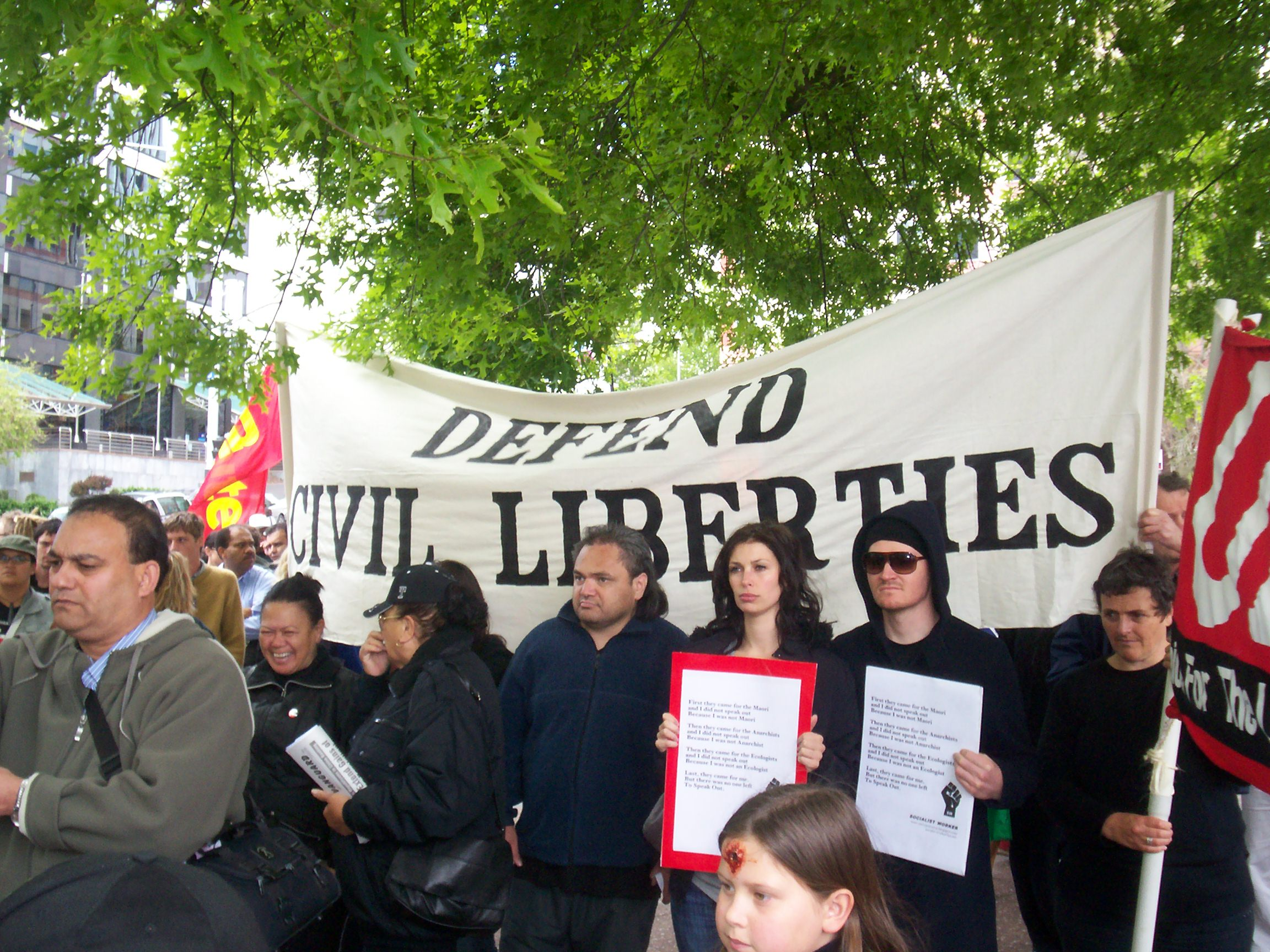 Protesters against en:2007 New Zealand anti-terror raids. Photo taken by uploader.